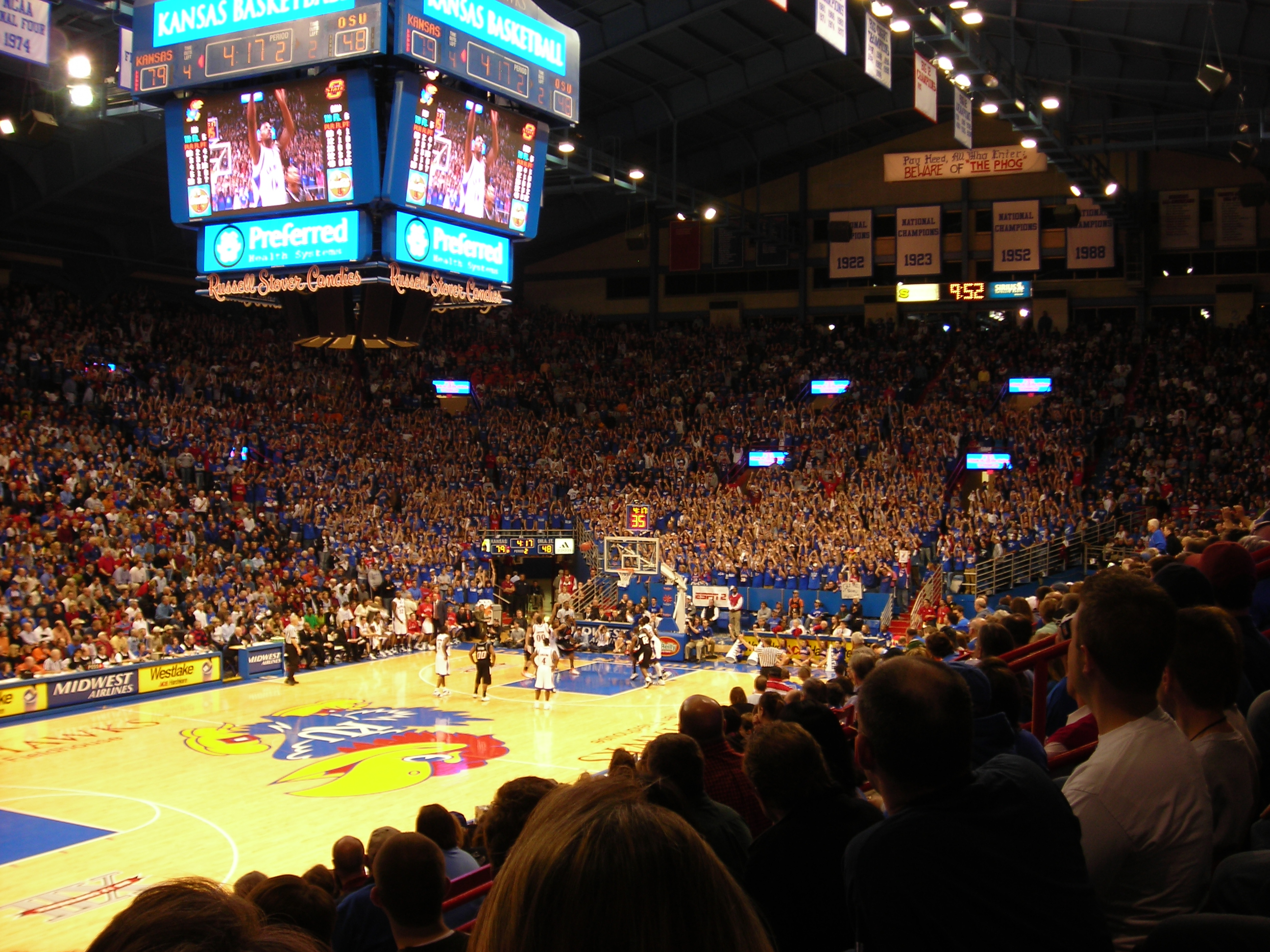 Allen Fieldhouse during the KU Oklahoma State game during the 2006-2007 Season.